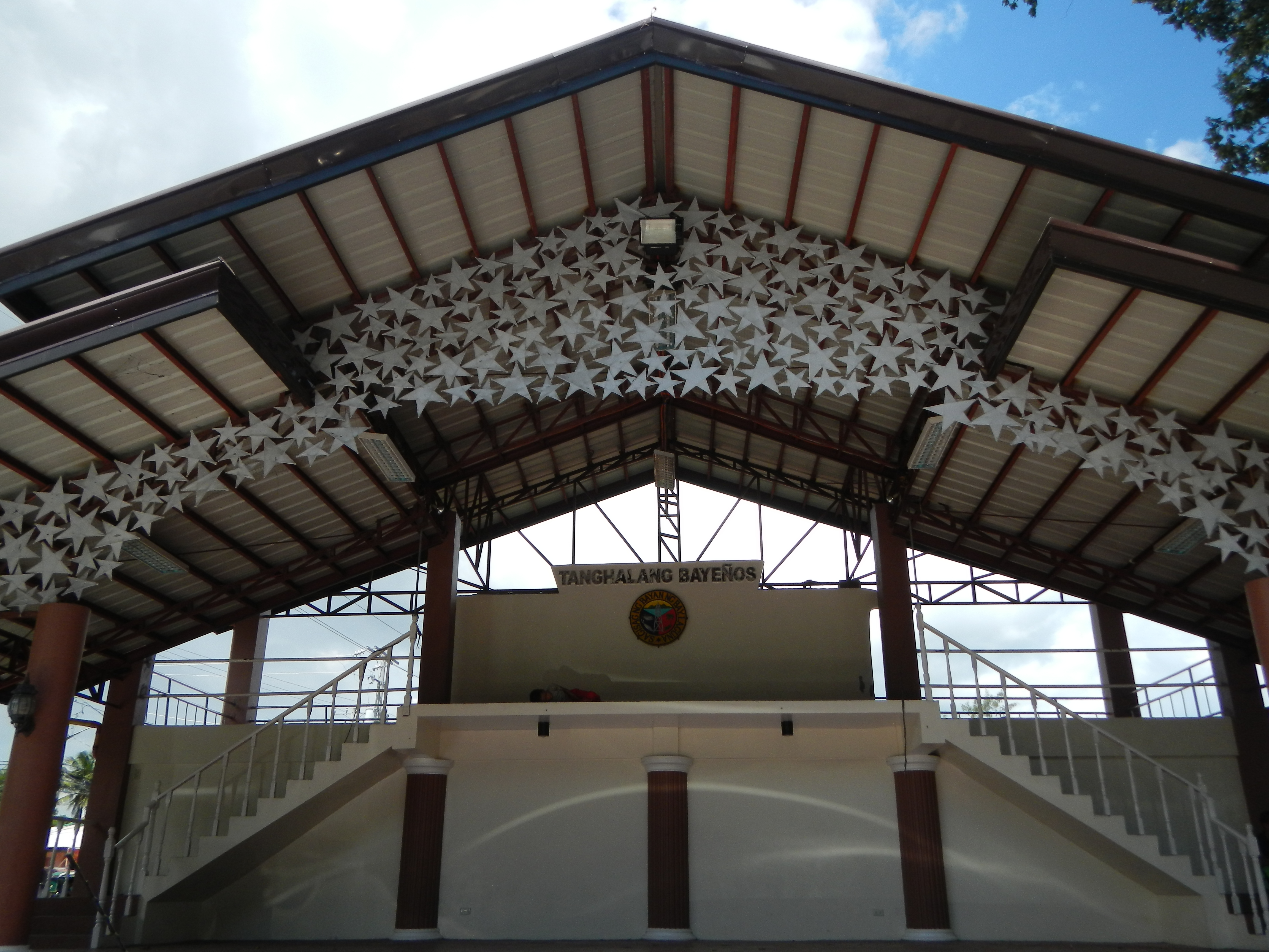 Bay Municipal Hall (Bay, Laguna)[1] Coordinates: 14°10'49"N 121°17'4"E - including the "Tanghalang Bayeños", the Bay River[2] (Tagalog: Ilog ng Bay , also known as the Sapang River or the San Nicolas River, is a river system in Bay, Laguna. It is one of 21 major tributaries of Laguna de Bay[3] and is the more southern of two small rivers that hem the town proper of Bay. The Bay River forms Bay's boundary with Calauan, Laguna. A third river on the opposite side of the town, the Maitem River (Tagalog: Ilog Maitem), forms Bay's boundary with Los Baños, Laguna. The other is the Calo River (Tagalog: Ilog Calo), another Laguna de Bay tributary, to the north.) under the Bay Bridge -------- Bay, Laguna[4] is a second class[5] municipality politically subdivided into 15 barangays, one of the oldest towns in the province of Laguna[6], Philippines, covering even Los Baños [7] and Calauan[8]. In 1581, Bay became the capital of the Province of Laguna de Bay and remained so until 1688 when the capital was moved to Pagsanjan. The Patron of Bay is Saint Augustine of Hippo [9] celebrating his Feast Day during August 28. [10] Coordinates: 14°8'1"N 121°15'9"E [11] Laguna, Region 4, Philippines, Asia Geographical coordinates: 14° 10' 58" North, 121° 17' 5" East This place is situated in Laguna, Region 4, Philippines, its geographical coordinates are 14° 10' 58" North, 121° 17' 5" East and its original name (with diacritics) is Bay. LLDA [12]